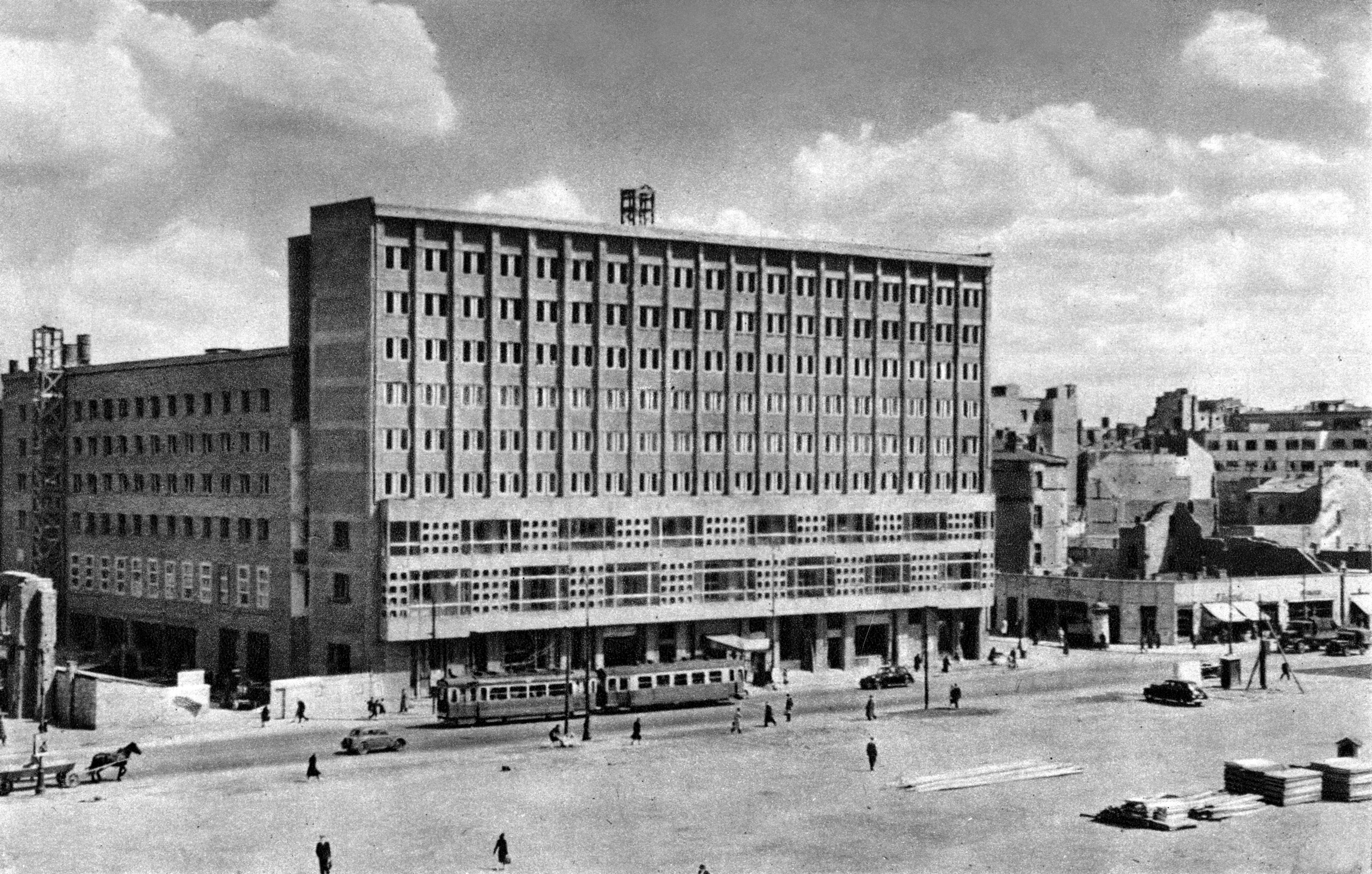 PKO building, Warsaw, in construction, 1946-1948